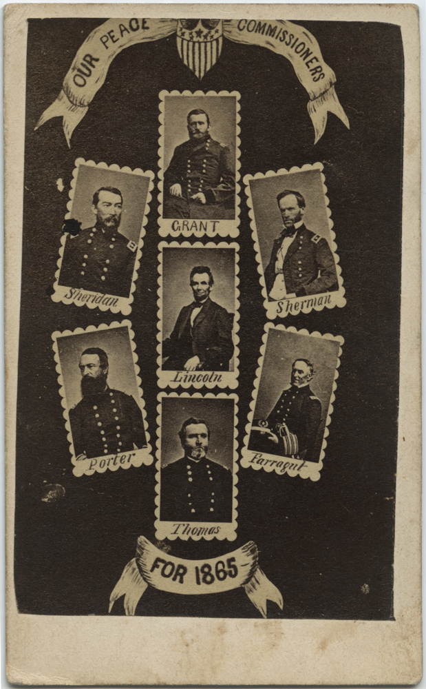 Title: Our Peace Commissioners for 1865 Creator: Philada. Photographic Co. Date: ca. 1861-1865 Part of: Physical Description: 1 photographic print on carte de visite mount; 10 x 6 cm File: ag2007_0007_03c_commissioners.tif Rights: Please cite DeGolyer Library, Southern Methodist University when using this file. A high-resolution version of this file may be obtained for a fee. For details see the web page. For other information, . For more information and to view the image in high resolution, View the